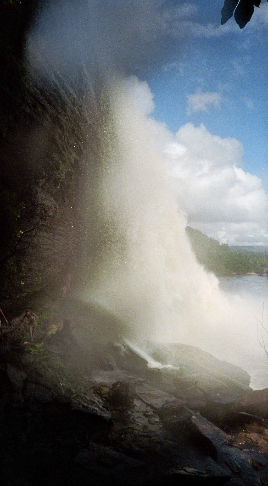 behind_Salto_Sapo